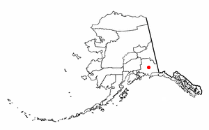 Adapted from Wikipedia's AK borough maps by Seth Ilys.